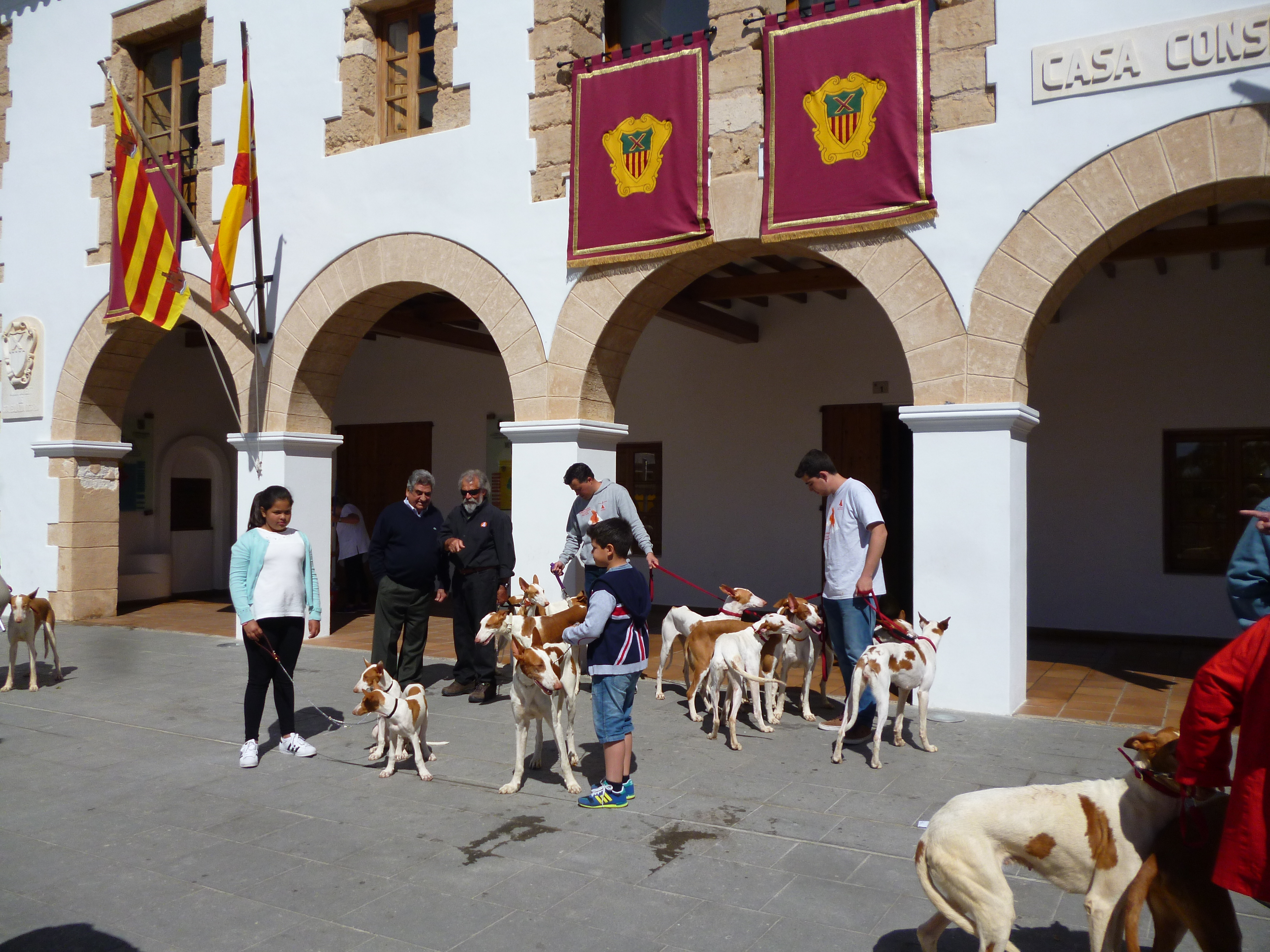 Podenco Ibicenco, Spanish Dog from Ibiza